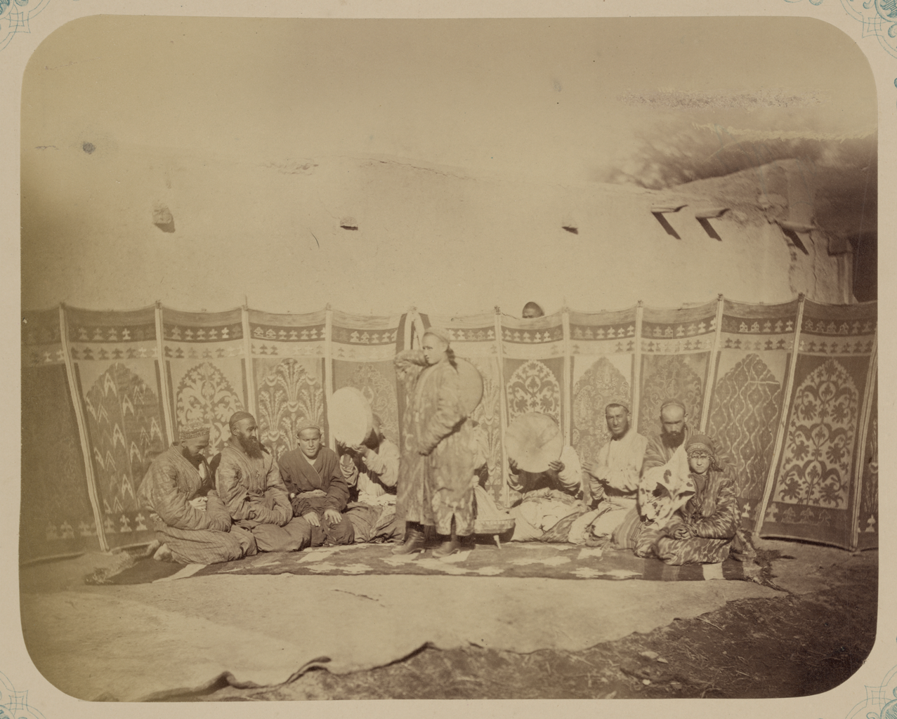 This photograph is from the ethnographical part of Turkestan Album, a comprehensive visual survey of Central Asia undertaken after imperial Russia assumed control of the region in the 1860s. Commissioned by General Konstantin Petrovich von Kaufman (1818–82), the first governor-general of Russian Turkestan, the album is in four parts spanning six volumes: “Archaeological Part” (two volumes); “Ethnographic Part” (two volumes); “Trades Part” (one volume); and “Historical Part” (one volume). The principal compiler was Russian Orientalist Aleksandr L. Kun, who was assisted by Nikolai V. Bogaevskii. The album contains some 1,200 photographs, along with architectural plans, watercolor drawings, and maps. The “Ethnographic Part” includes 491 individual photographs on 163 plates. The photographs show individuals representing the different peoples of the region (Plates 1–33); daily life and rituals (Plates 34–91); and views of villages and cities, street vendors, and commercial activities (Plates 92–163). Dancers; Drums; Entertainers; Ethnographic photographs; Group portraits; Manners and customs; Musical instruments; Musicians; Photographic surveys; Portrait photographs; Turkic peoples